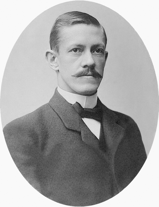 Allvar Gullstrand